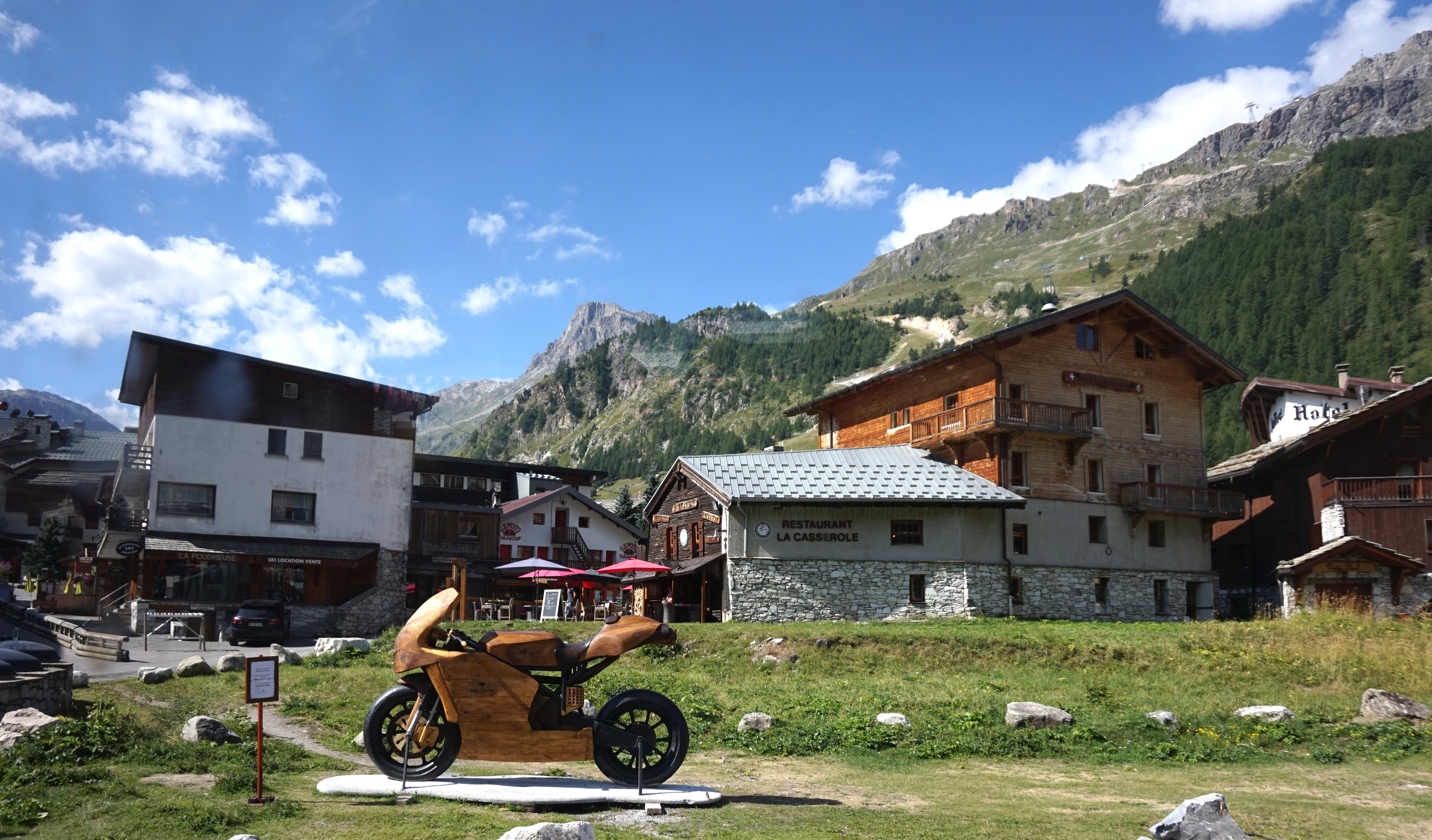 Val-d'Isère, France. This photograph was taken with a Sony Alpha a5000.